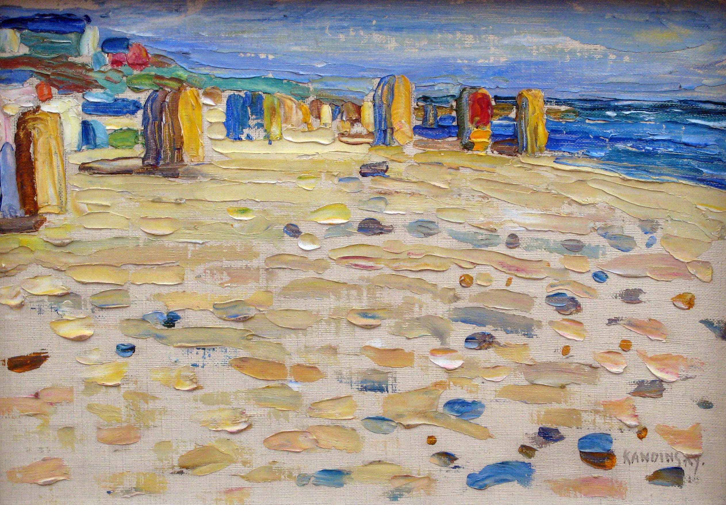 Holland, Beach Chairs